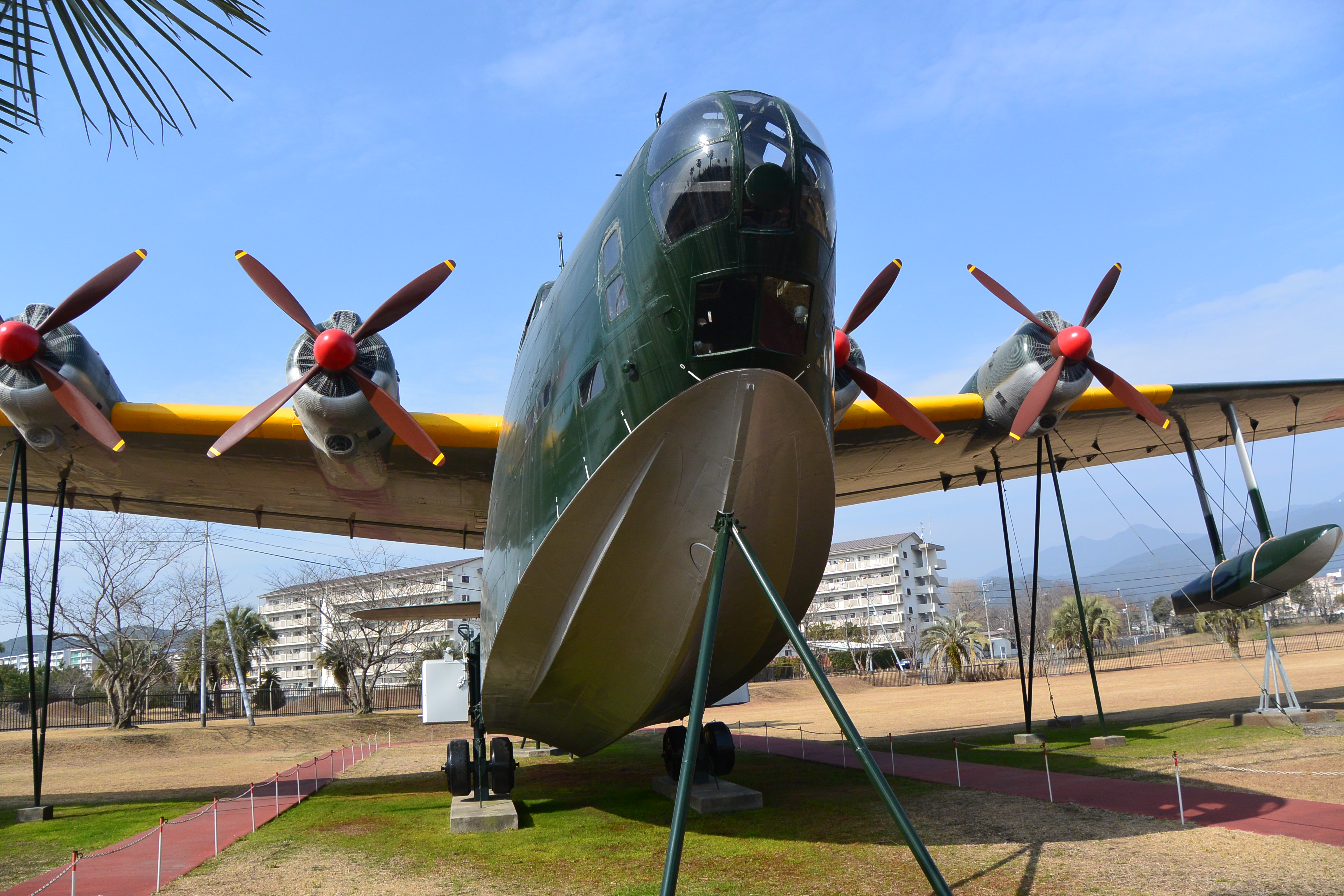 The bottom of H8K, Kanoya air base Kyusyu